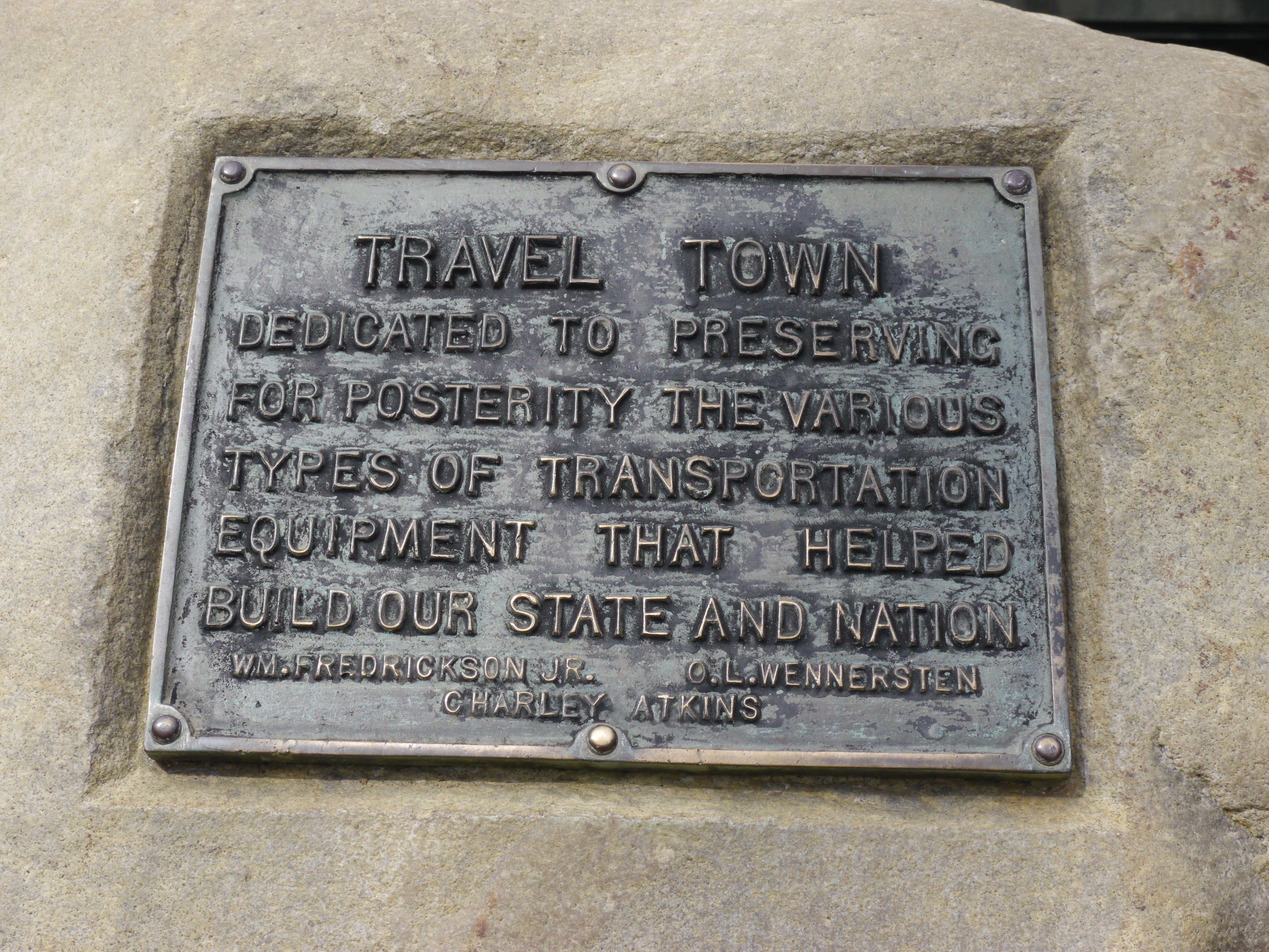 USA 2012 0213 - Los Angeles - Travel Town